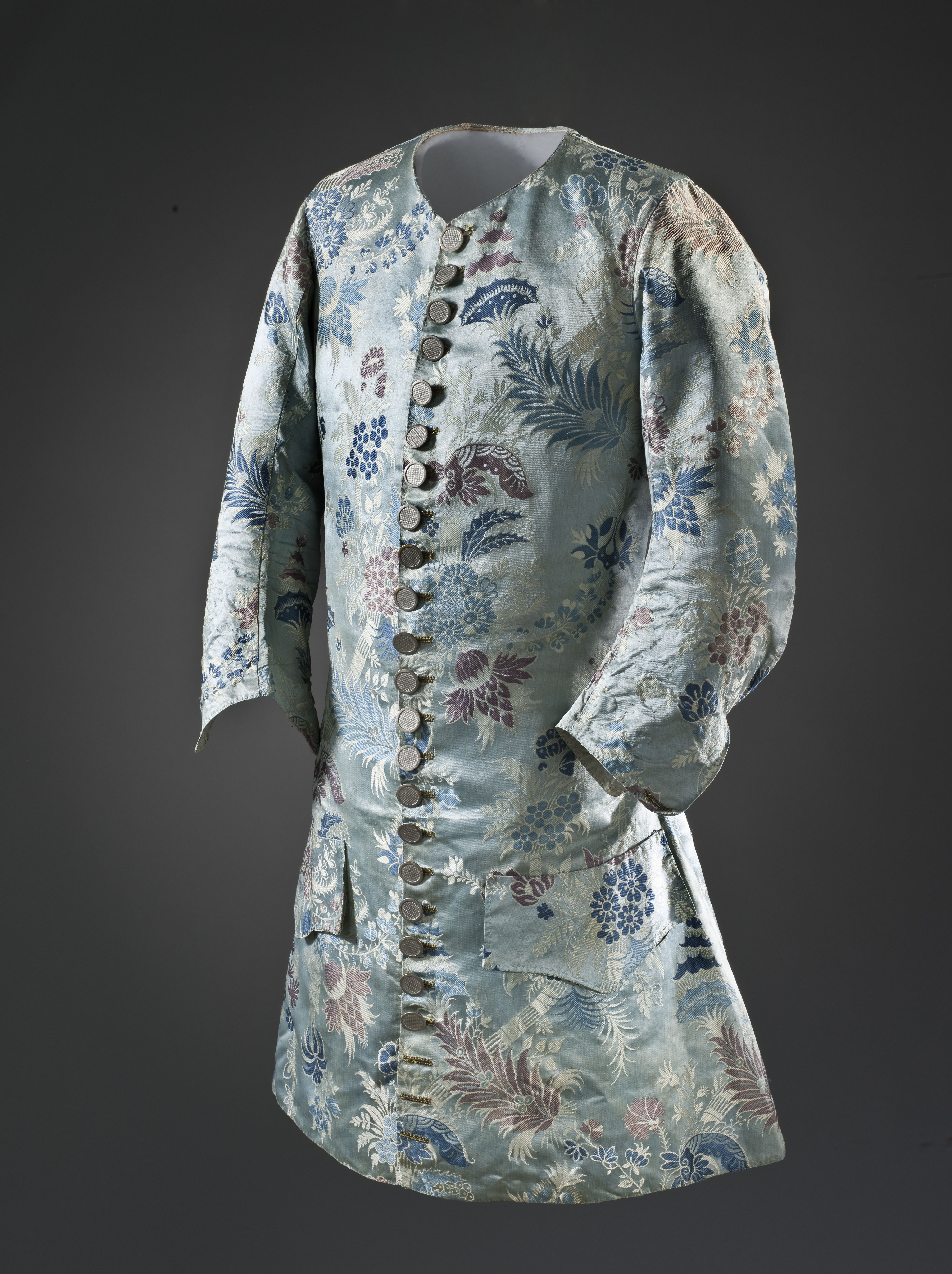 Man’s "bizarre" silk sleeved waistcoat, France, circa 1715.